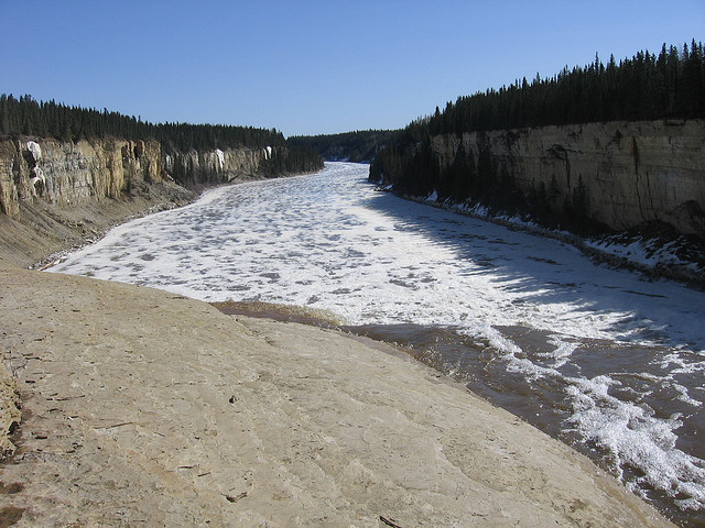 Really sweet shot of the canyon walls at Alexandra Falls in the NWT.